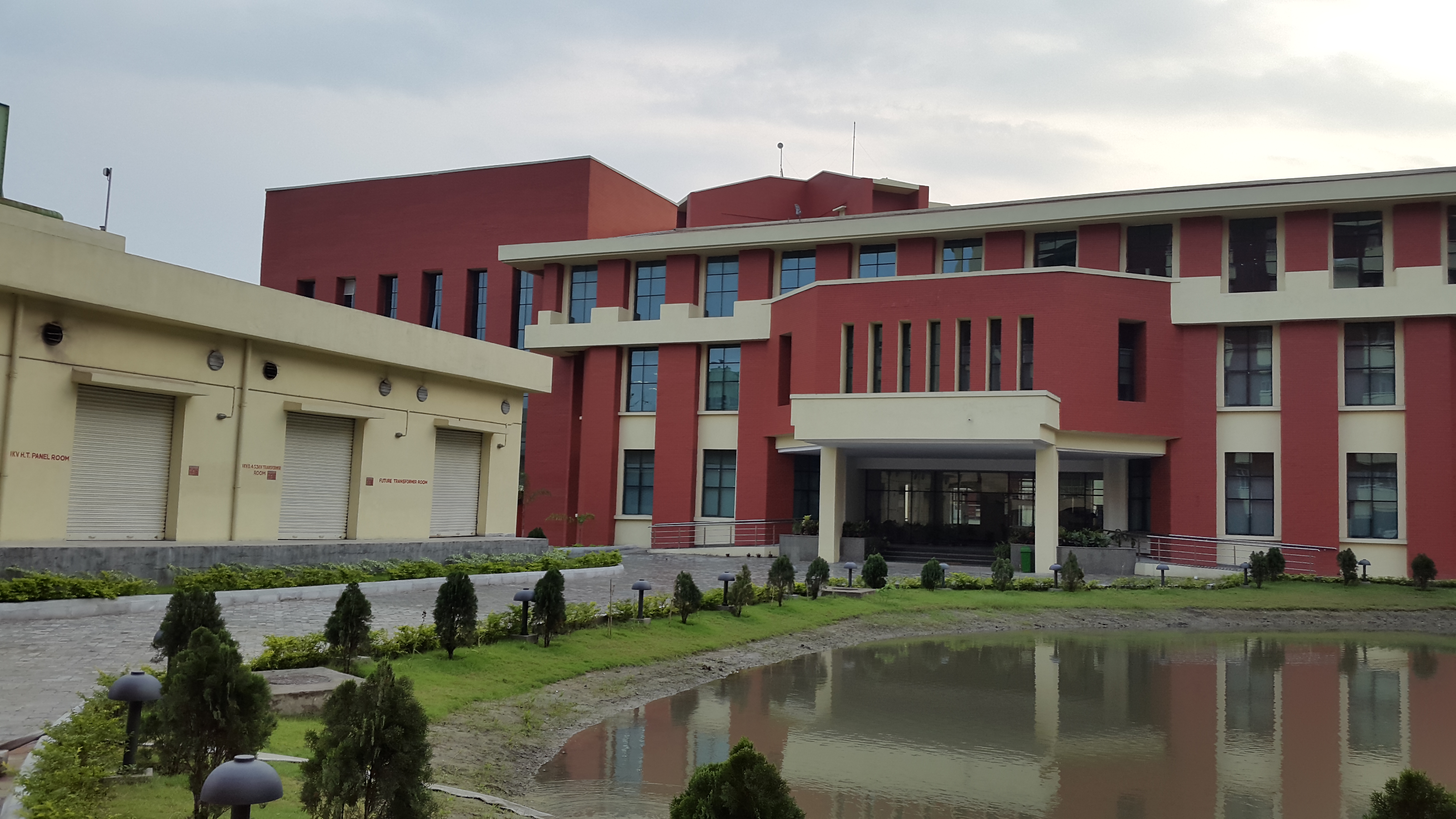 It is a premier Indian b-school specialising in research on trade and export-import policy